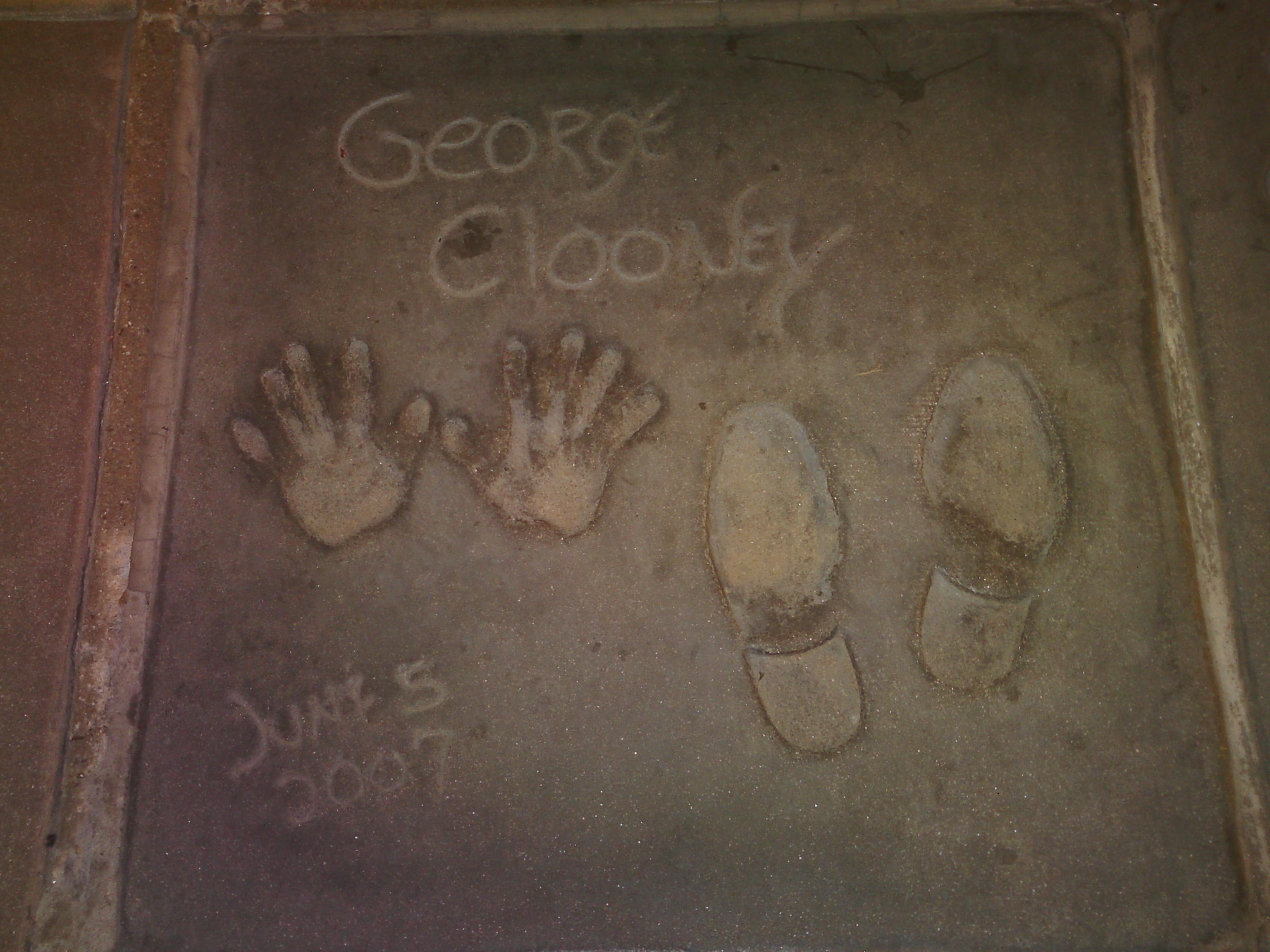 George Clooney's footprint and handprint on the Hollywood Walk of Fame